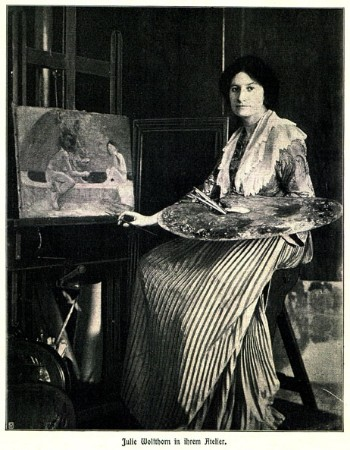 Julie Wolfthorn in her studio